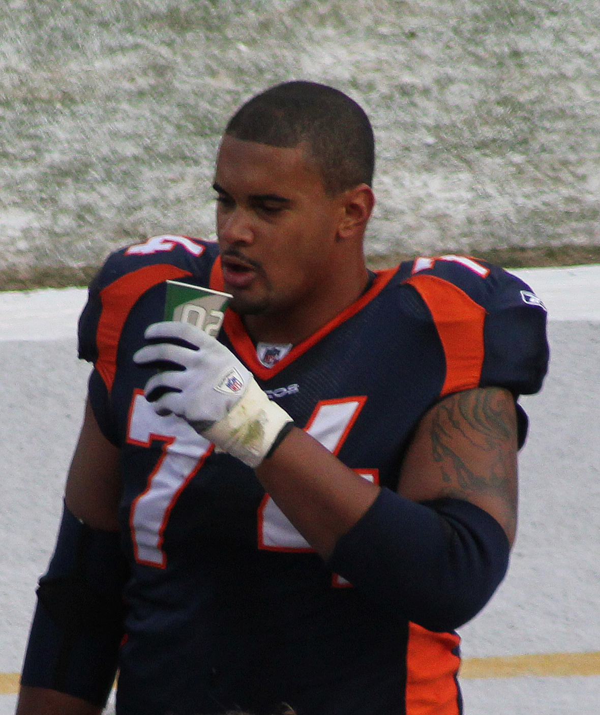 Ryan Harris, a player on the Denver Broncos American football team.